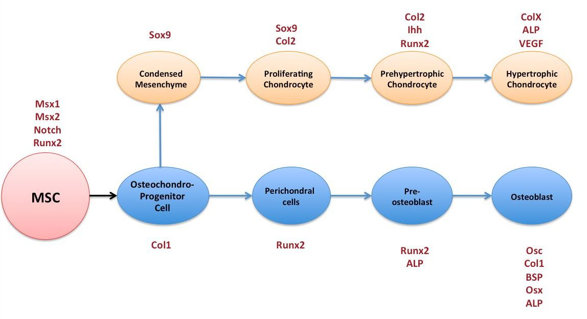 molecular diagram of MSC into differentiated cell lineages